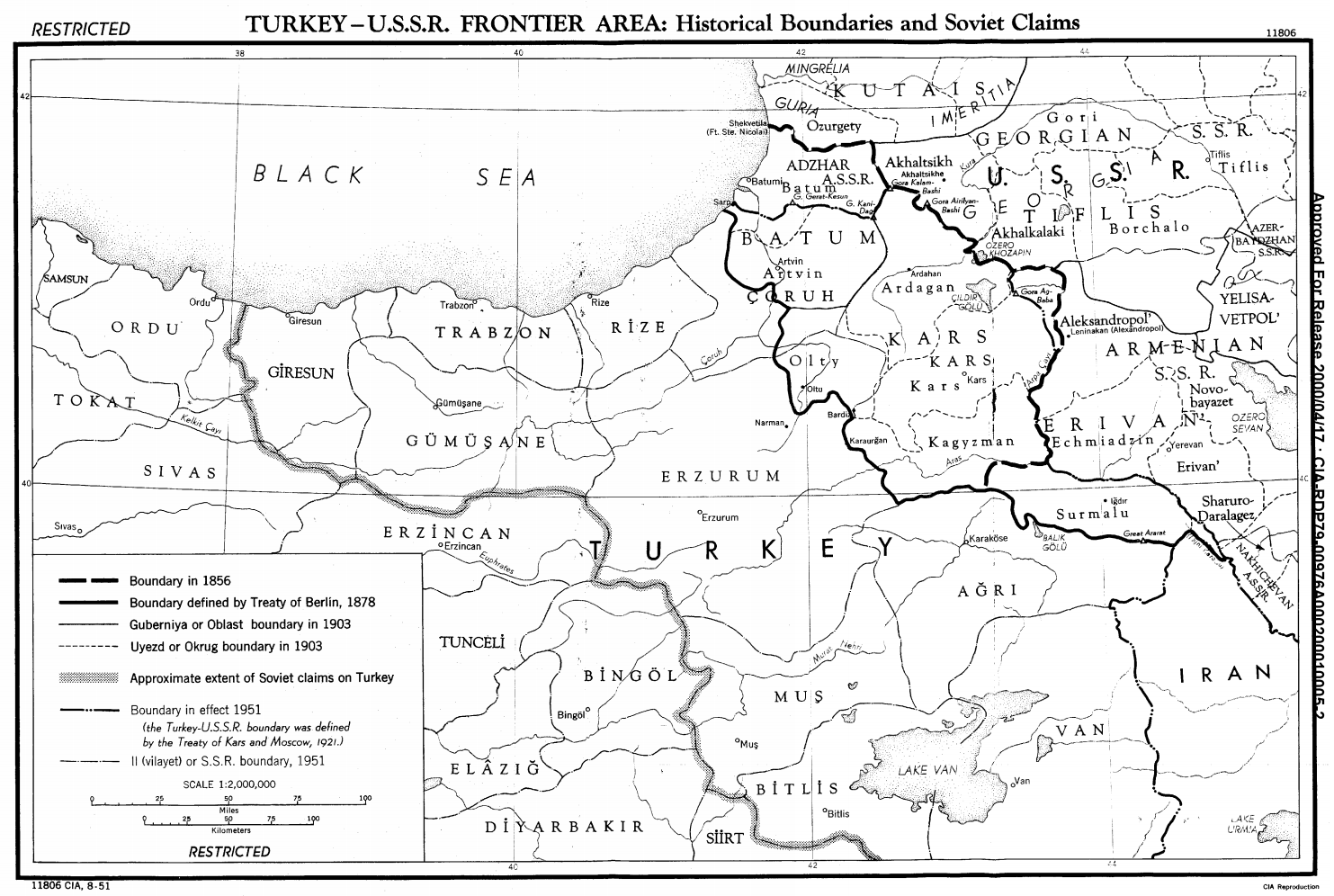 Russia-Ottoman wars map